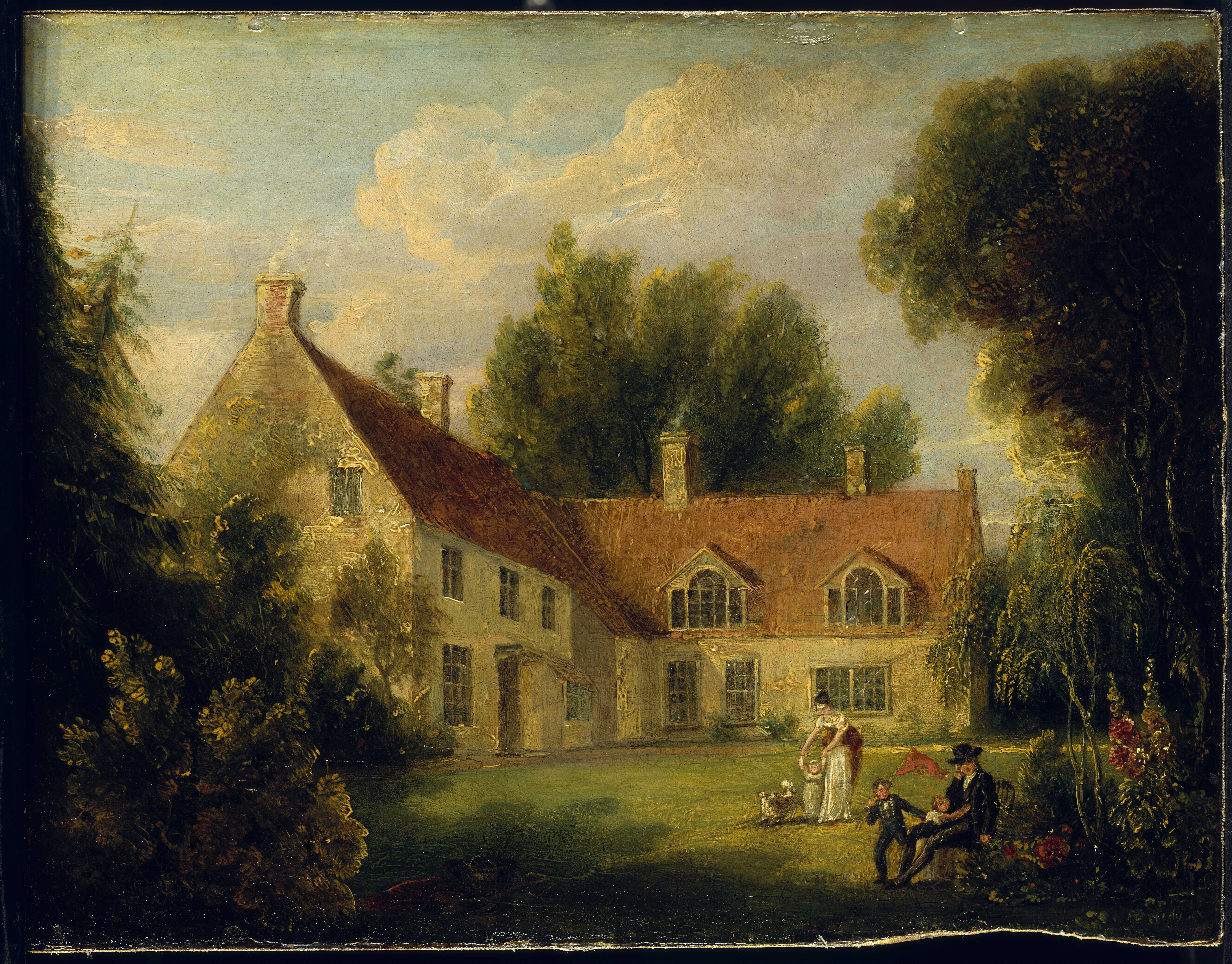 The Rectory, Burnham Thorpe, Norfolk Apparently the source of the engraving of Nelson's birthplace, entitled on the plate 'The Parsonage House of Burnham Thorpe' (see PAF4316), which appeared in the first volume of Clarke and McArthur's 'Life of Nelson' (1809). There has been longstanding confusion about the artist, whose name is given as 'F. Pocock' on the plate and has been expanded in various sources to 'Francis Pocock', though apparently otherwise unknown. Clarke and McArthur's index clearly states the image was painted by 'J. Pocock' from an 'exact drawing in possession of Earl Nelson', the admiral's elder brother, William. Allowing the traditional interchangeability of 'I' and 'J' this can only indicate Isaac Pocock, the painter son of Nicholas, the marine artist, who himself did much work for their book: 'F' on the plate is therefore probably just a slip. The house itself had been two large cottages, knocked together. It was bitterly cold in winter and was demolished in 1802. The drawing on which this view was based has not been located and BHC1771 is another oil on panel version, of uncertain authorship, with the same imagined Nelson family group in the foreground. In this young Horatio is presumably the boy dressed in blue with a red flag, with his parents and a sibling. Isaac Pocock (1782-1835) trained as a portraitist under Romney and Beechey but also did historical compositions. He exhibited at the Royal Academy, the British Institution and the Liverpool Academy, but from 1809 turned to playwriting, at which he had considerable success. In 1818 his inheritance of the Maidenhead estate of his former sea-captain uncle, Sir Isaac, ended his painting career but he continued writing popular drama to his death. PvdM 5/05 The Rectory, Burnham Thorpe, Norfolk